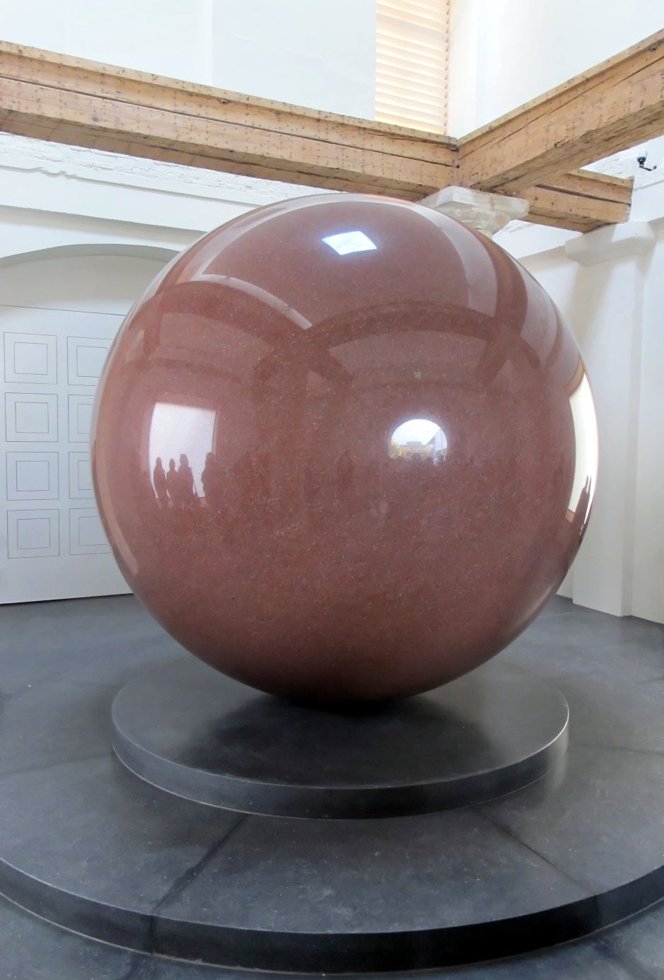 Munich, Museum Türkentor, artwork „Large Red Sphere“